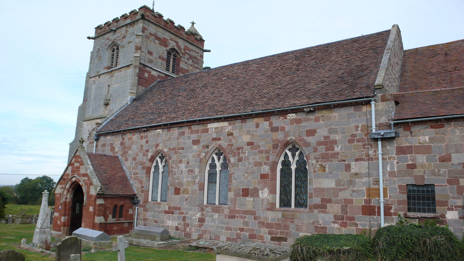 St. Andrews Church Wroxeter, near to Wroxeter, Shropshire, Great Britain. St. Andrews church is maintained under the Redundant Churches Fund